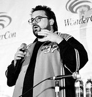 Kevin Smith speaking at Wondercon in San Francisco with unknown American Sign Language translator